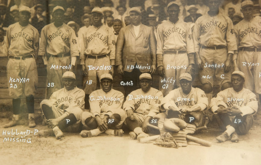 Sepia tone photo of 1919 Brooklyn Royal Giants baseball team